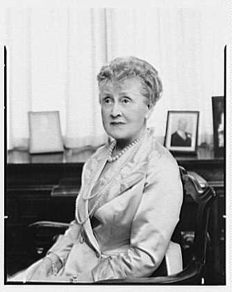 Title: Mrs. Louis Brugiere, Wakehurst, residence in Newport, Rhode Island. Abstract/medium: Gottscho-Schleisner Collection (Library of Congress) Physical description: 1 negative